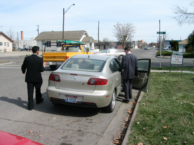 Two missionaries of The Church of Jesus Christ of Latter-day Saints assigned to Ontario, Oregon.